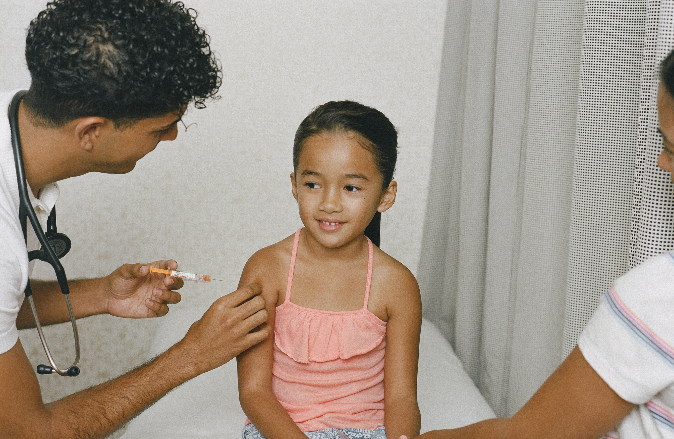 Photographer: Heather Hazzan; Wardrobe: Ronald Burton; Props: Campbell Pearson; Hair: Hide Suzuki; Makeup: Deanna Melluso at See Management. Shot on location at One Medical.